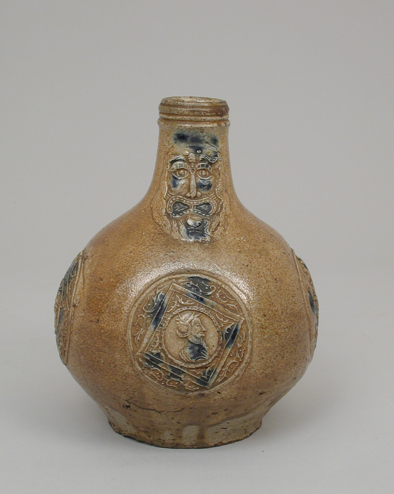 German, Cologne (Frechen); Jug; Ceramics-Pottery